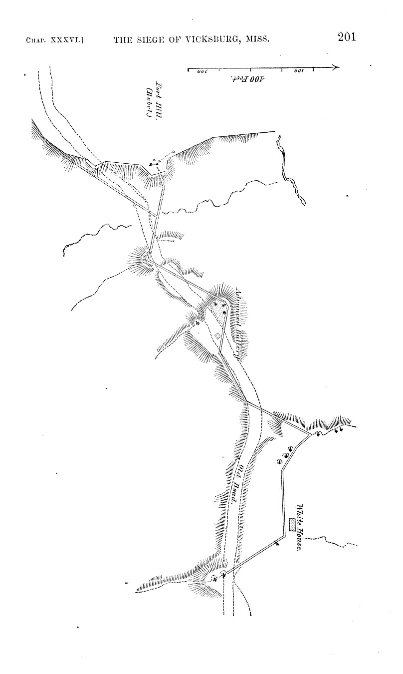 Approaches to the 3. Louisiana Redan from May 25th to July 1st, 1863 during the Siege of Vicksburg